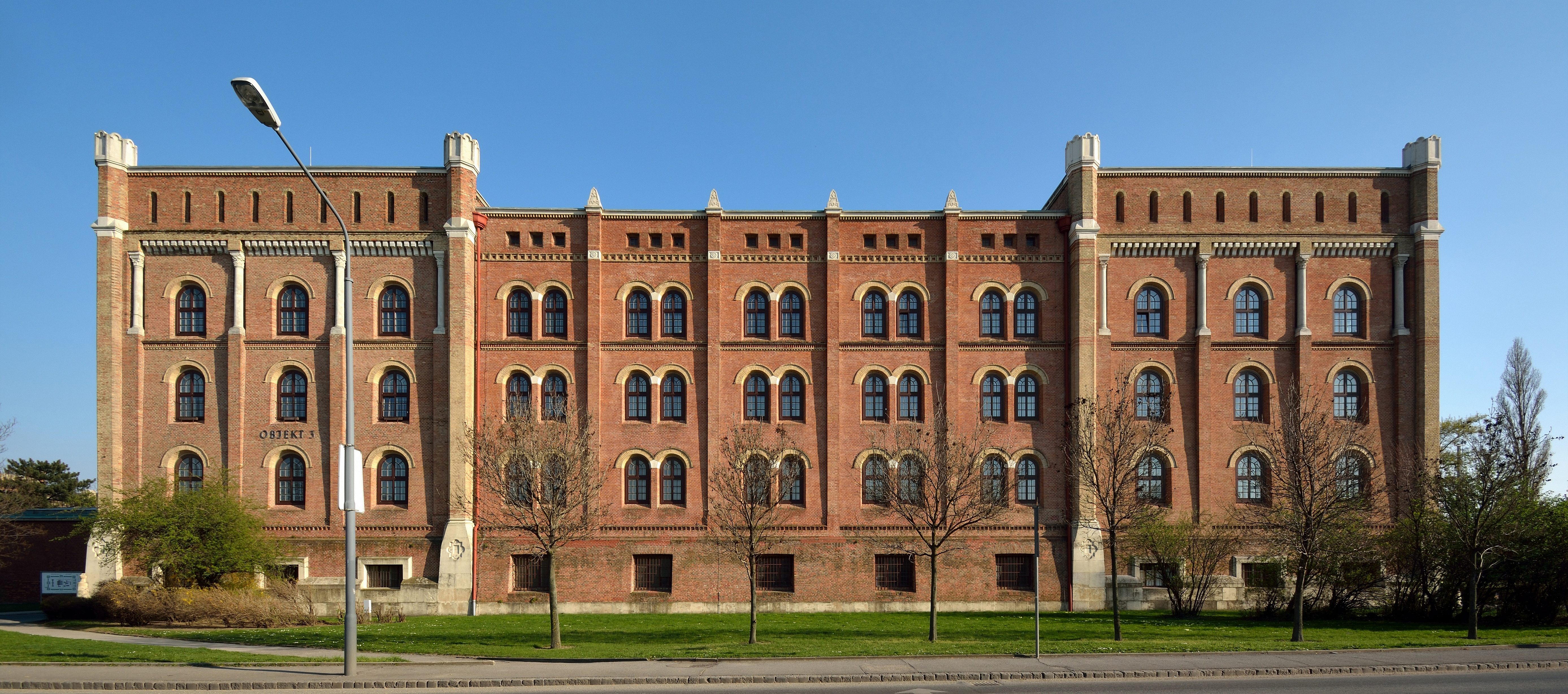 Arsenal, object 3, 3rd district of Vienna